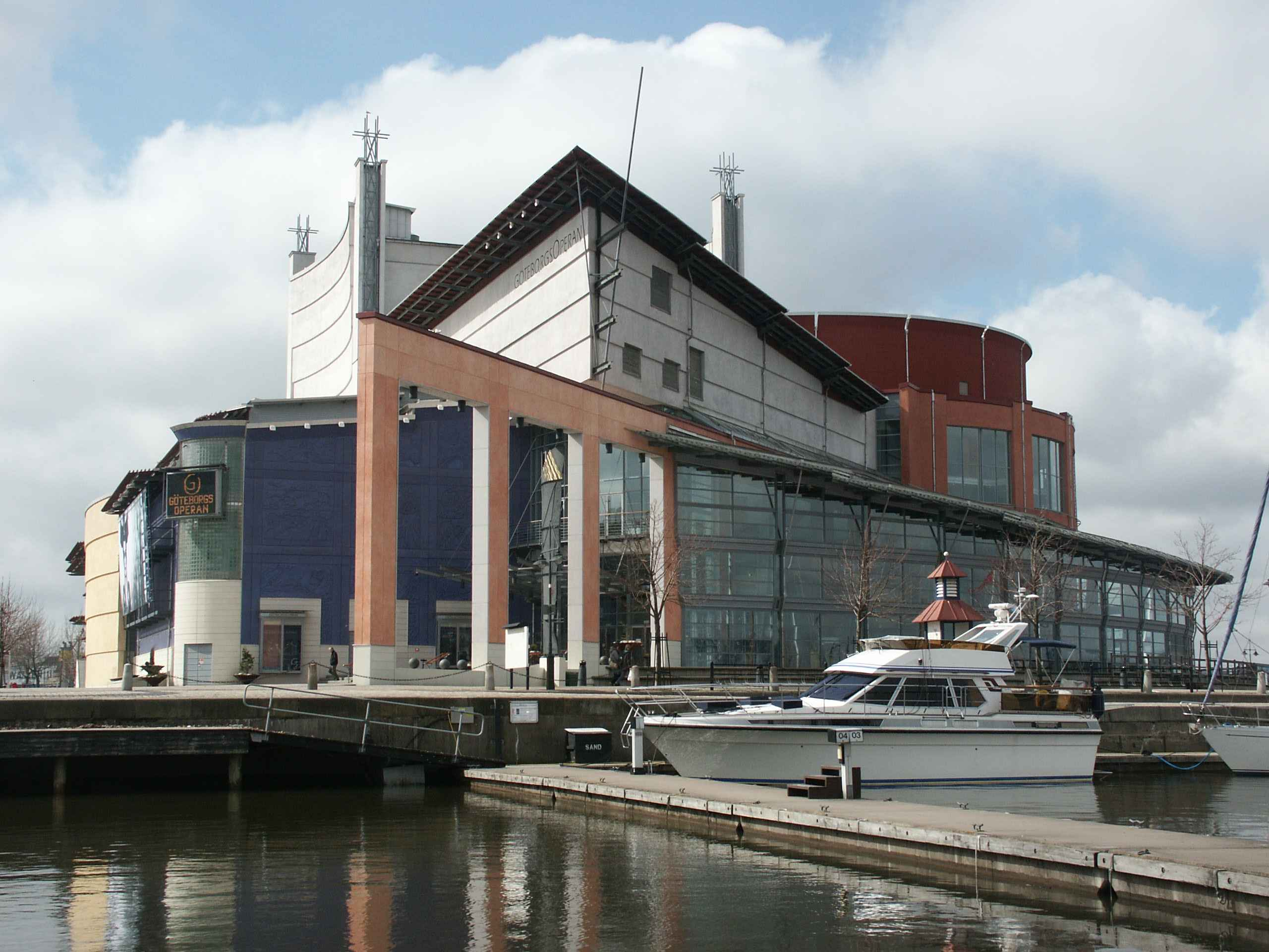 Photographer: Erik of Gothenburg, EVL. The Gothenburg Opera.